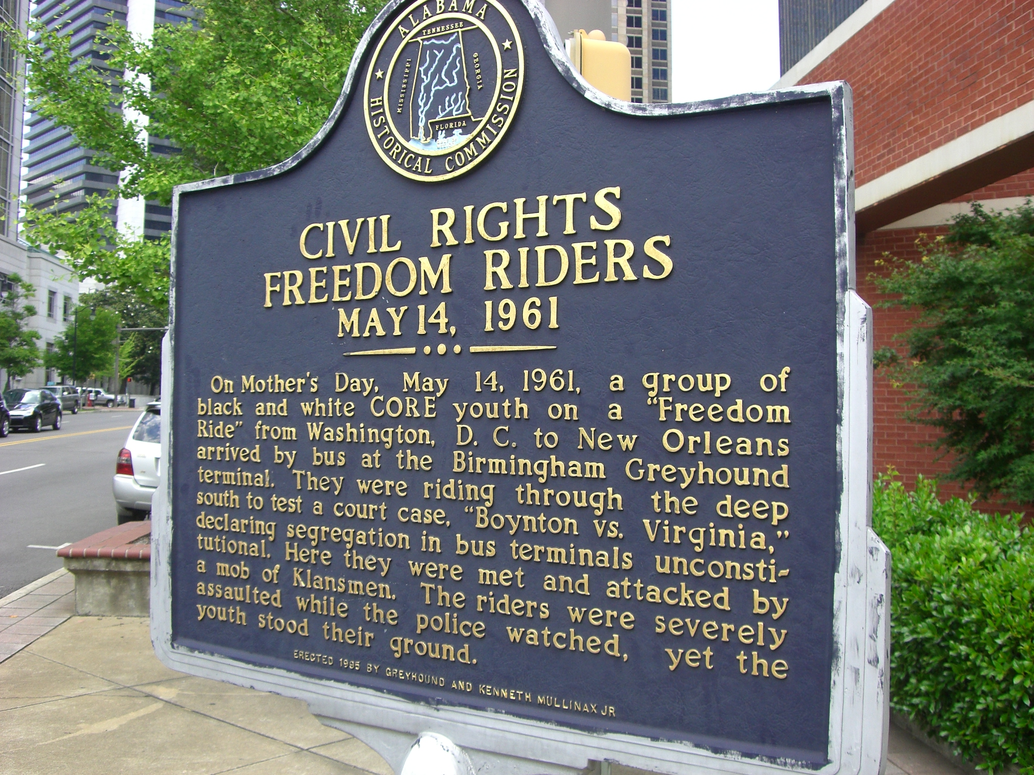 Downtown Birmingham.